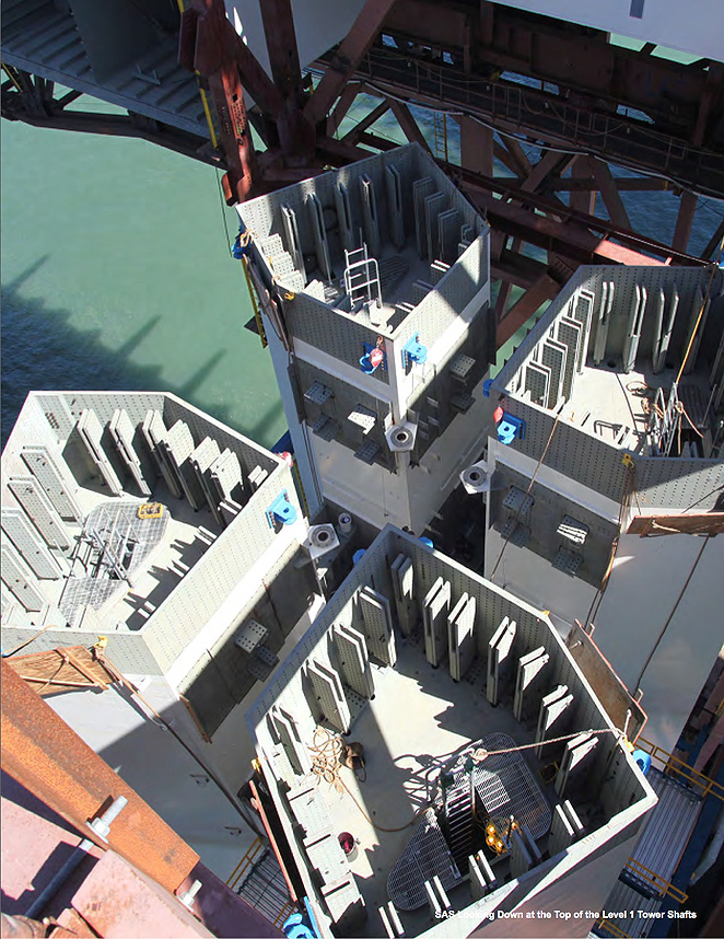 Screen snapshot of page 43 of PDF report, TIFF converted to JPG, reduced 2/3, sharpened.